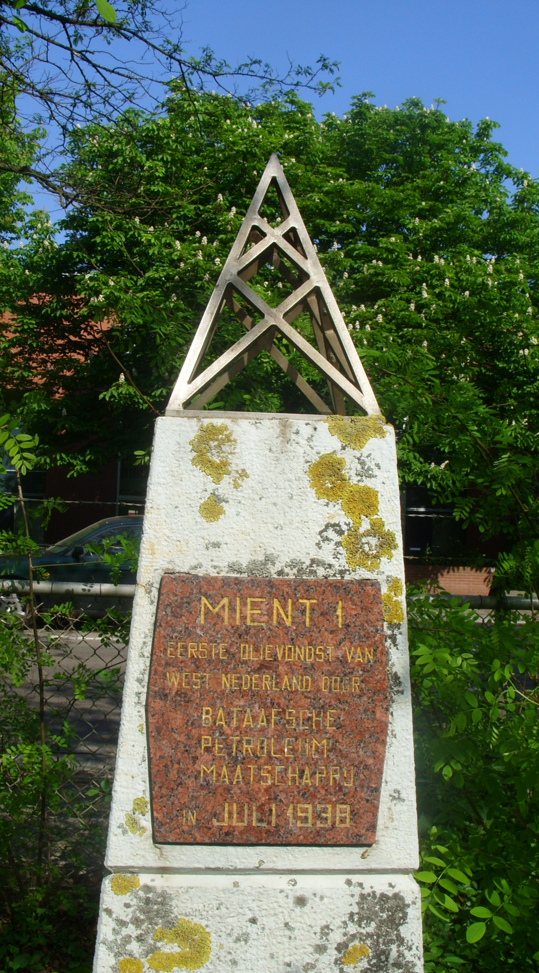 Monument for the first oil show in Western Netherlands in 1938, Mient, The Hague, The Netherlands